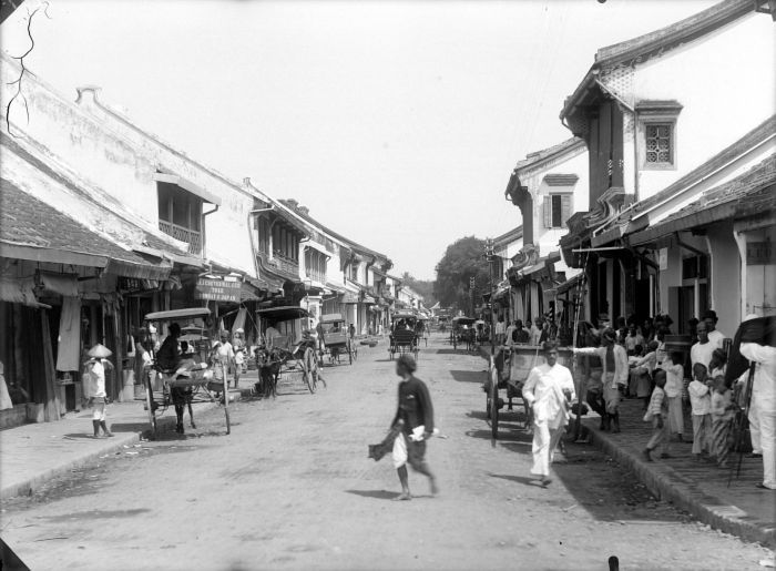 Pasar Baroe at Weltevreden, Batavia